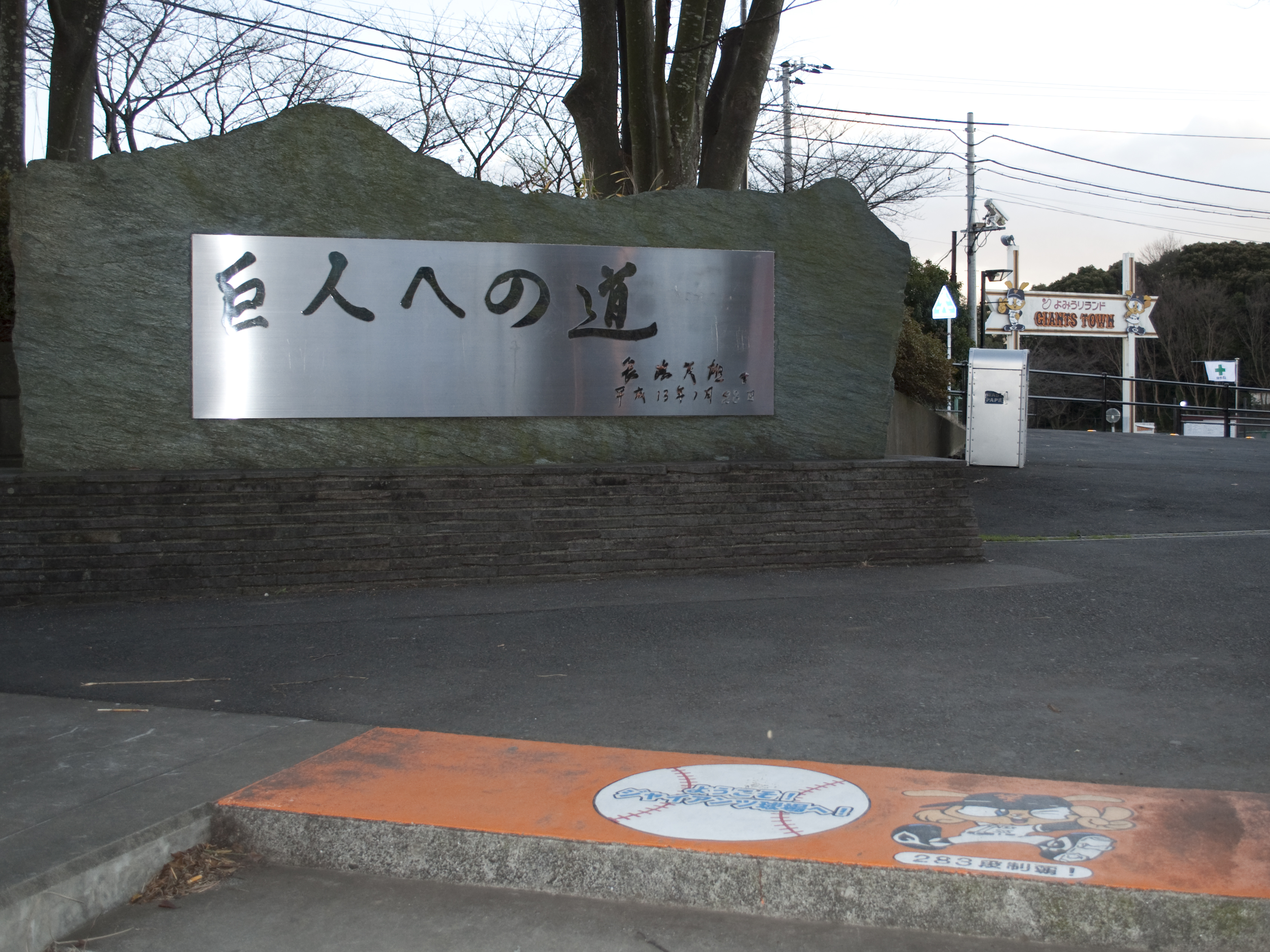 Stone sign saying "Road to Kyojin" in Inagi, Tokyo, Japan. "Kyojin" is Yomiuri Giants which is one of major league teams in Japan.